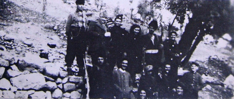 Partisan Detachment "Orce Nikolov", set up in 1943 in Kumanovo. This media file is produced by Wikipedian in Residence in Category:Wikipedian in Residence at DARM in 2016.